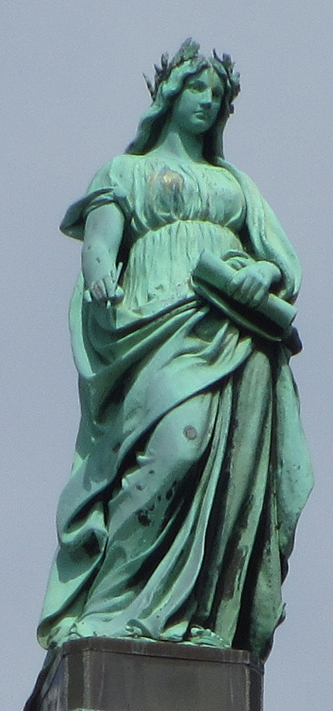 Halbig-Statue-Fides-Treue-Maximilianstrasse-Muenchen